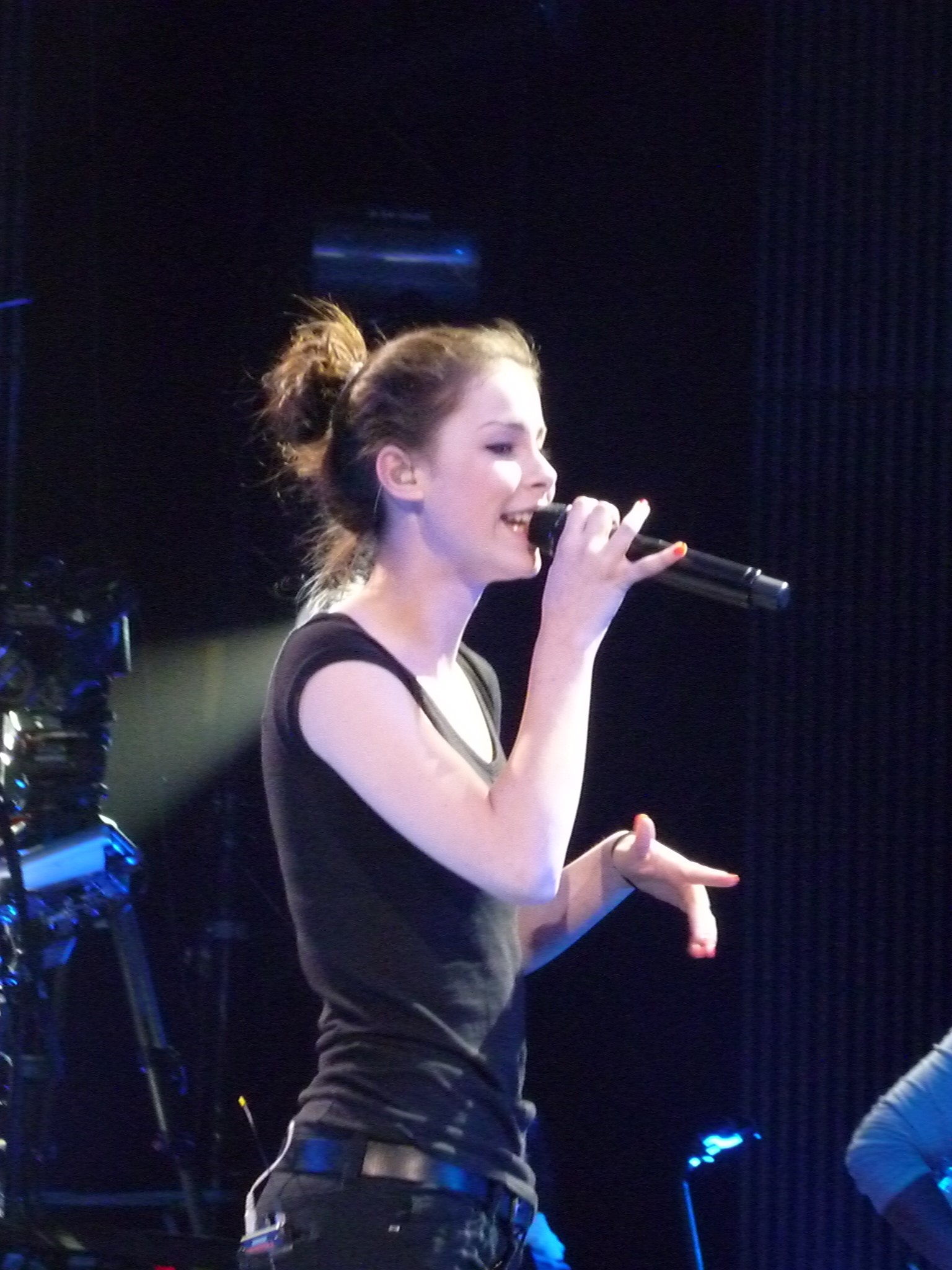 Lena Meyer-Landrut performs 'Not Following' on stage of Laxess-Arena during Lena Live-Tour 2011